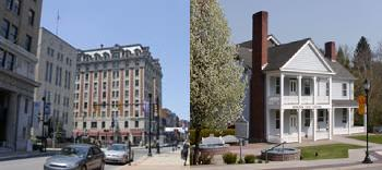 View of mainstreet Clarksburg (left) and the Benedum Civic Center in Bridgeport (right).